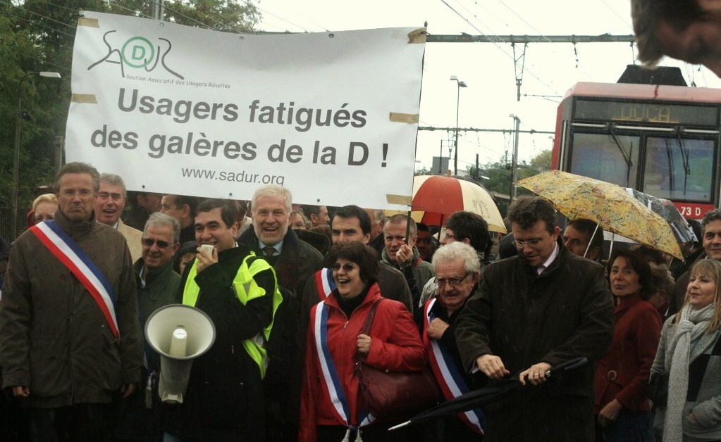 Manifestation